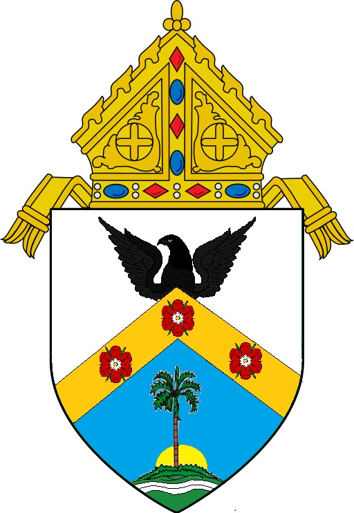 This is a representation of the Coat of Arms of the Arhcdiocese of Jaro in the Philippines: Argent a chevron Or charged with three roses Gules barbed and seeded; in Chief an eagle displayed-demi Sable; in middle base Bleu celeste, on a mound Vert and traversed in fess by an ondé Argent, a sun-demi Or behind a coconut tree Proper.